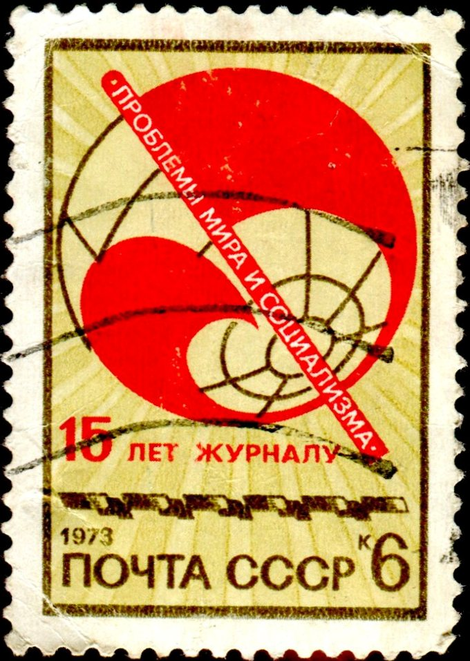 Postage stamp of the USSR. 15 years of the journal Problems of Peace and Socialism. 1973 year.